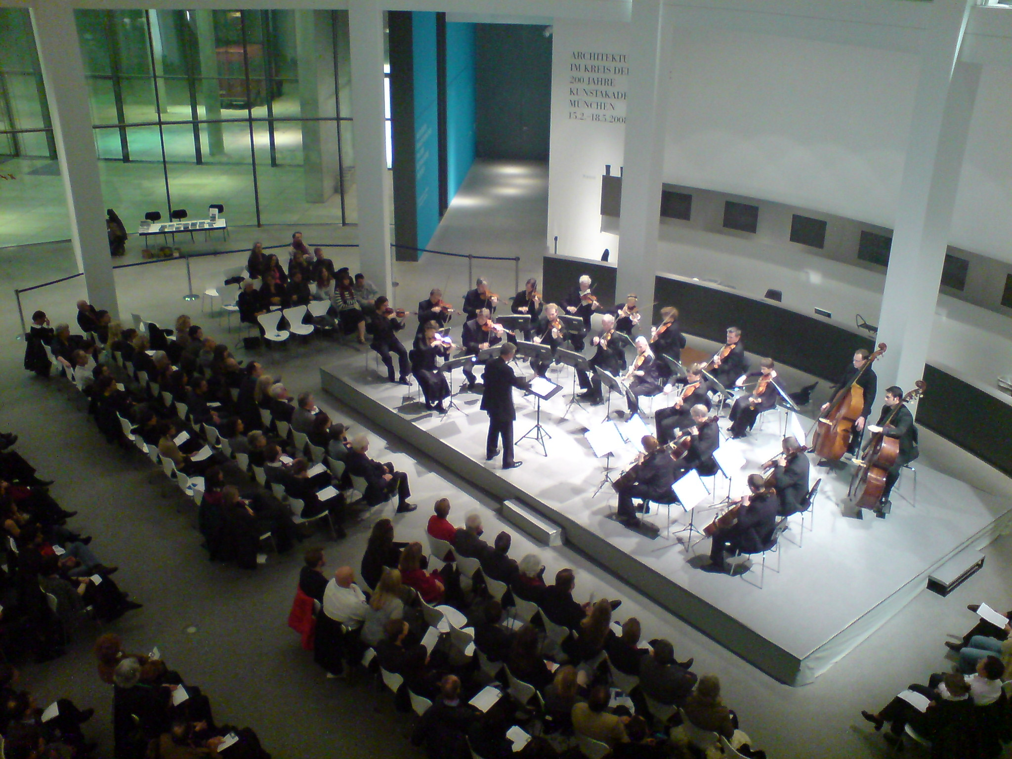 The Munich Chamber Orchestra in the Pinakothek der Moderne